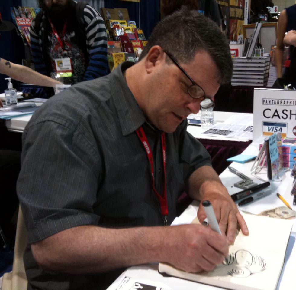 Comics creator Peter Bagge at the Comic-Con 2010 comics convention.